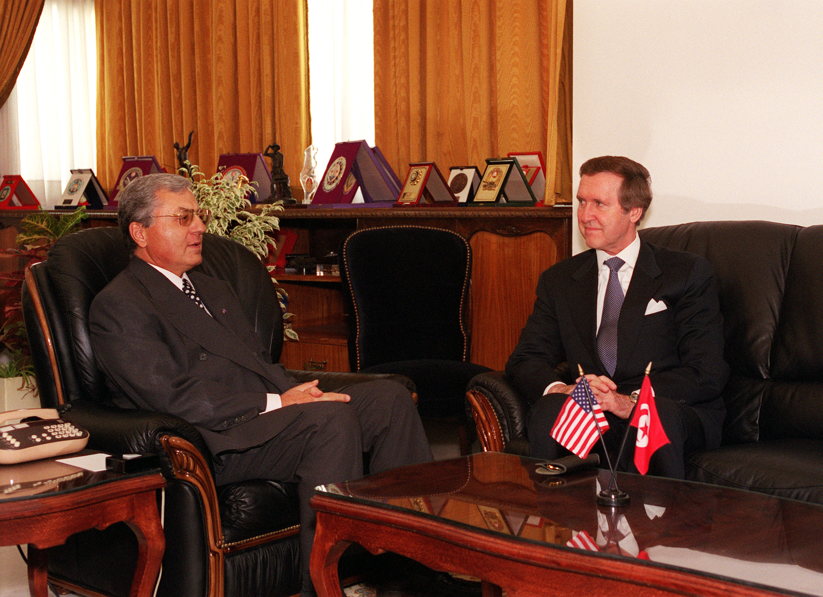 US secretary of defense William Cohen (right) meets with Tunisian defense minister Mohamed Jegham (left) in Tunis, Tunisia